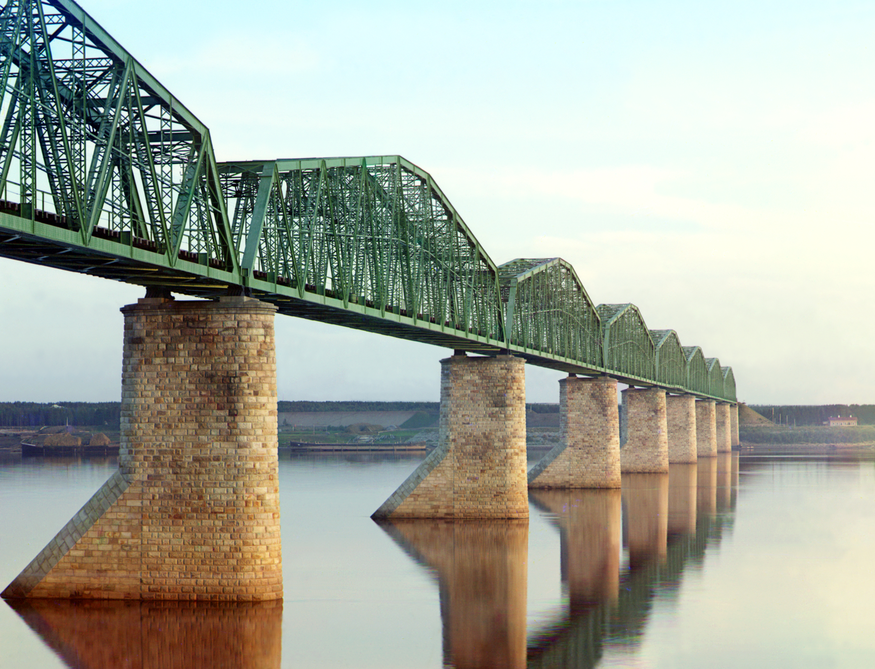 Metal Truss Railroad Bridge (Kama River, near Perm city). Early color photograph from Russia, created by Sergei Mikhailovich Prokudin-Gorskii as part of his work to document the Russian Empire from 1909 to 1915.